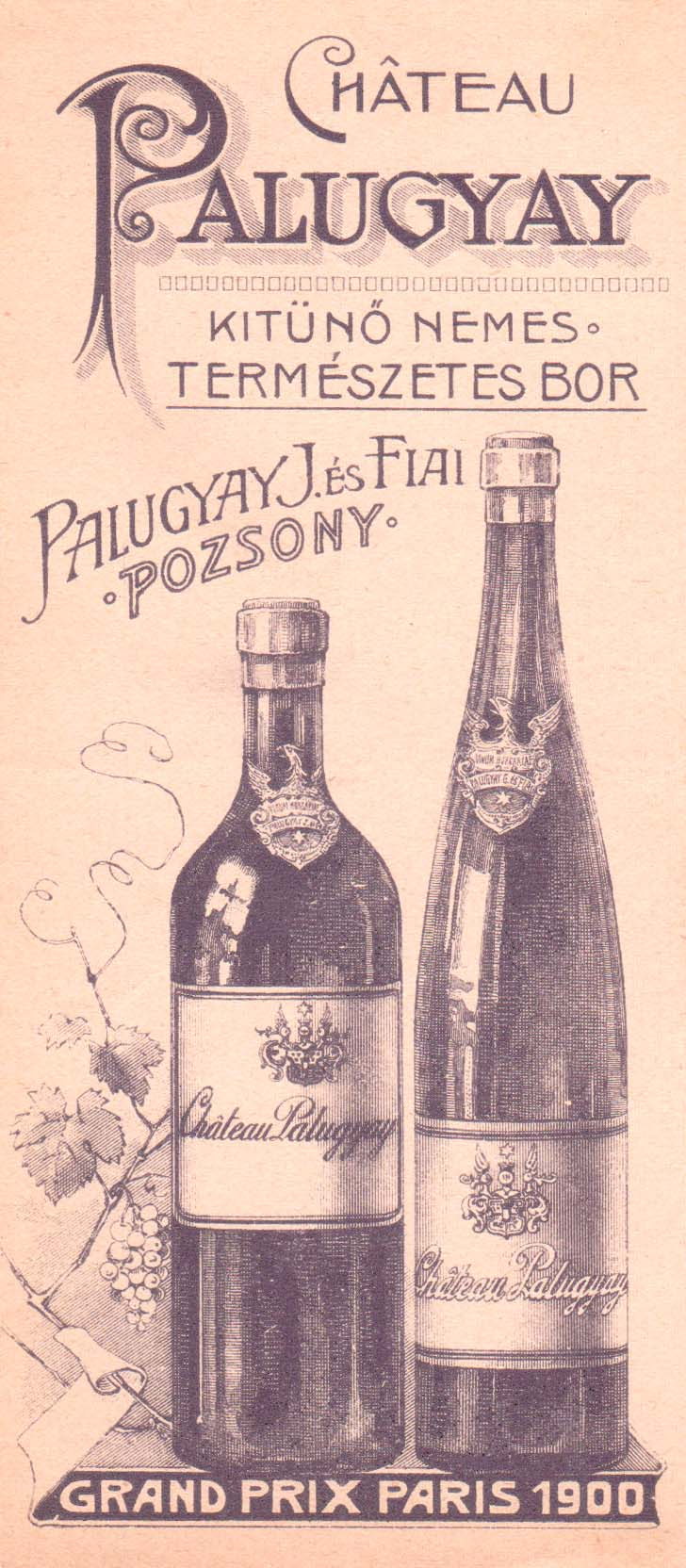 Billboard of Château Palugyay, hungarian wine (now Presbourg)